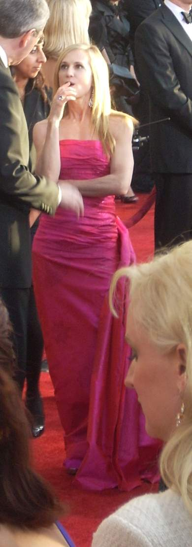 Actress Holly Hunter, nominated for "Saving Grace" at the 15th Screen Actors Guild Awards